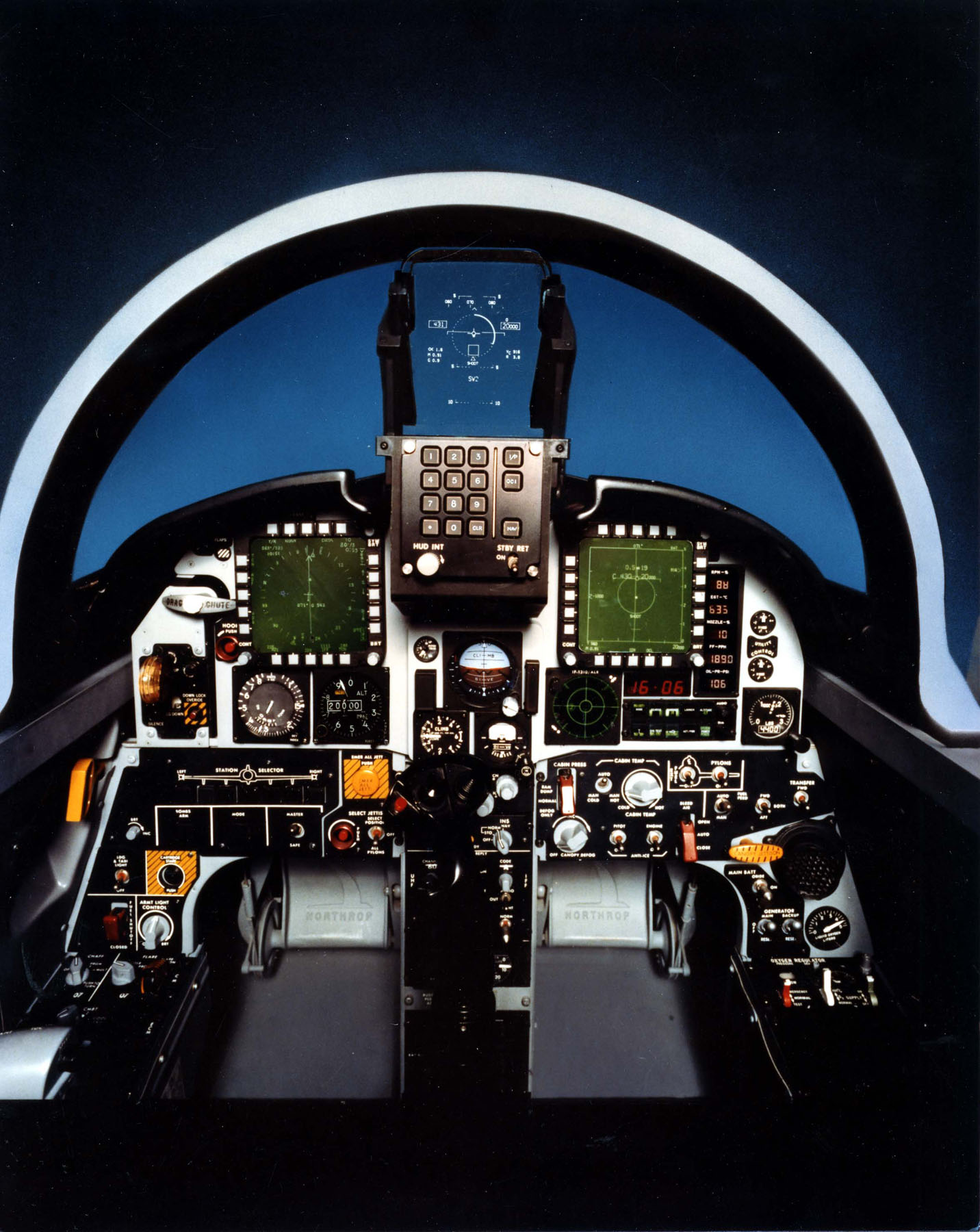 Northrop F-20 cockpit mock-up. (U.S. Air Force photo)